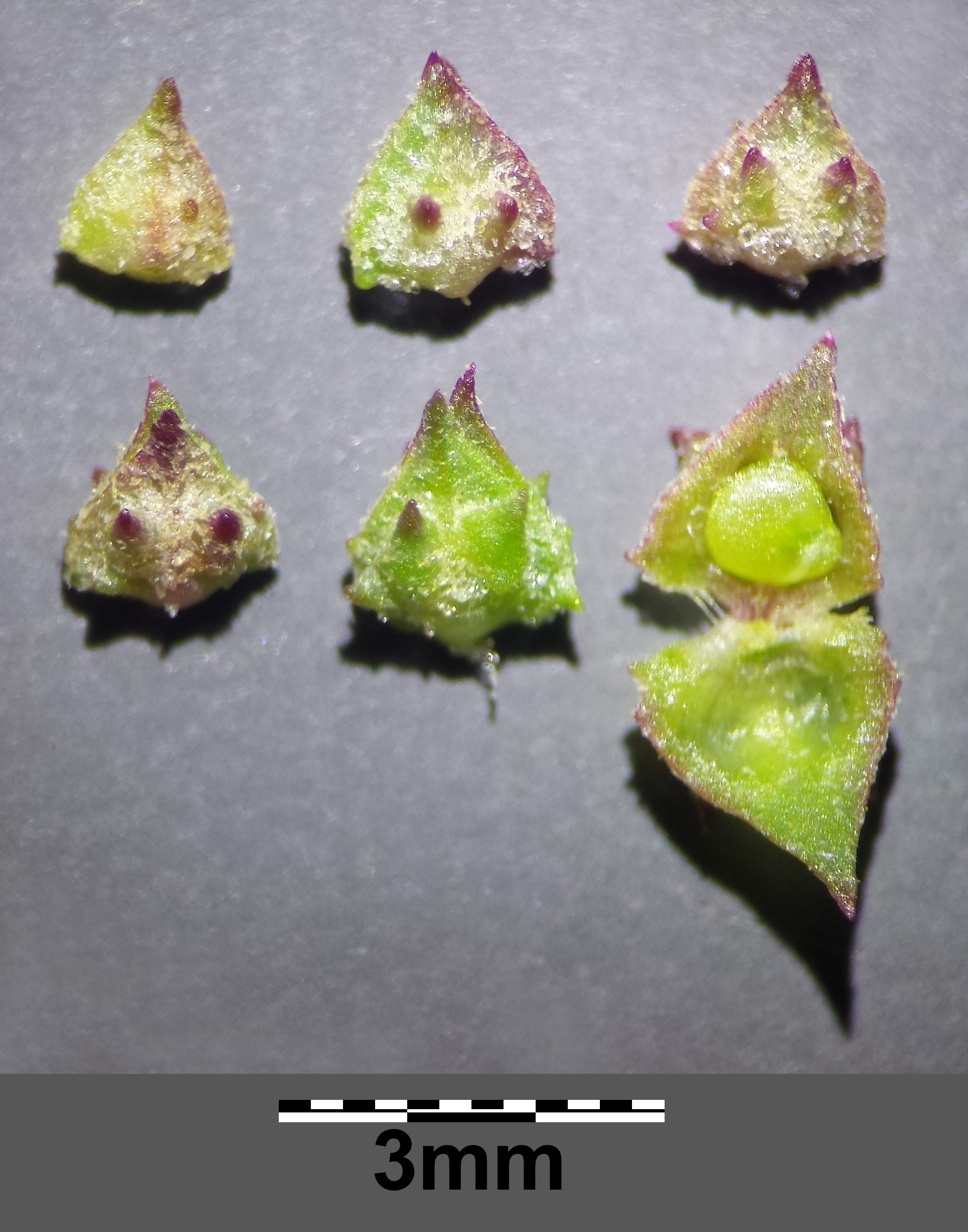 Female flowers with prophylls At the bottom right: prophyll turned back Taxonym: Atriplex prostrata ss Fischer et al. EfÖLS 2008 ISBN 978-3-85474-187-9 Location: next to Zwingendorf, district Mistelbach, Lower Austria - ca. 185 m a.s.l. Habitat: salt meadow